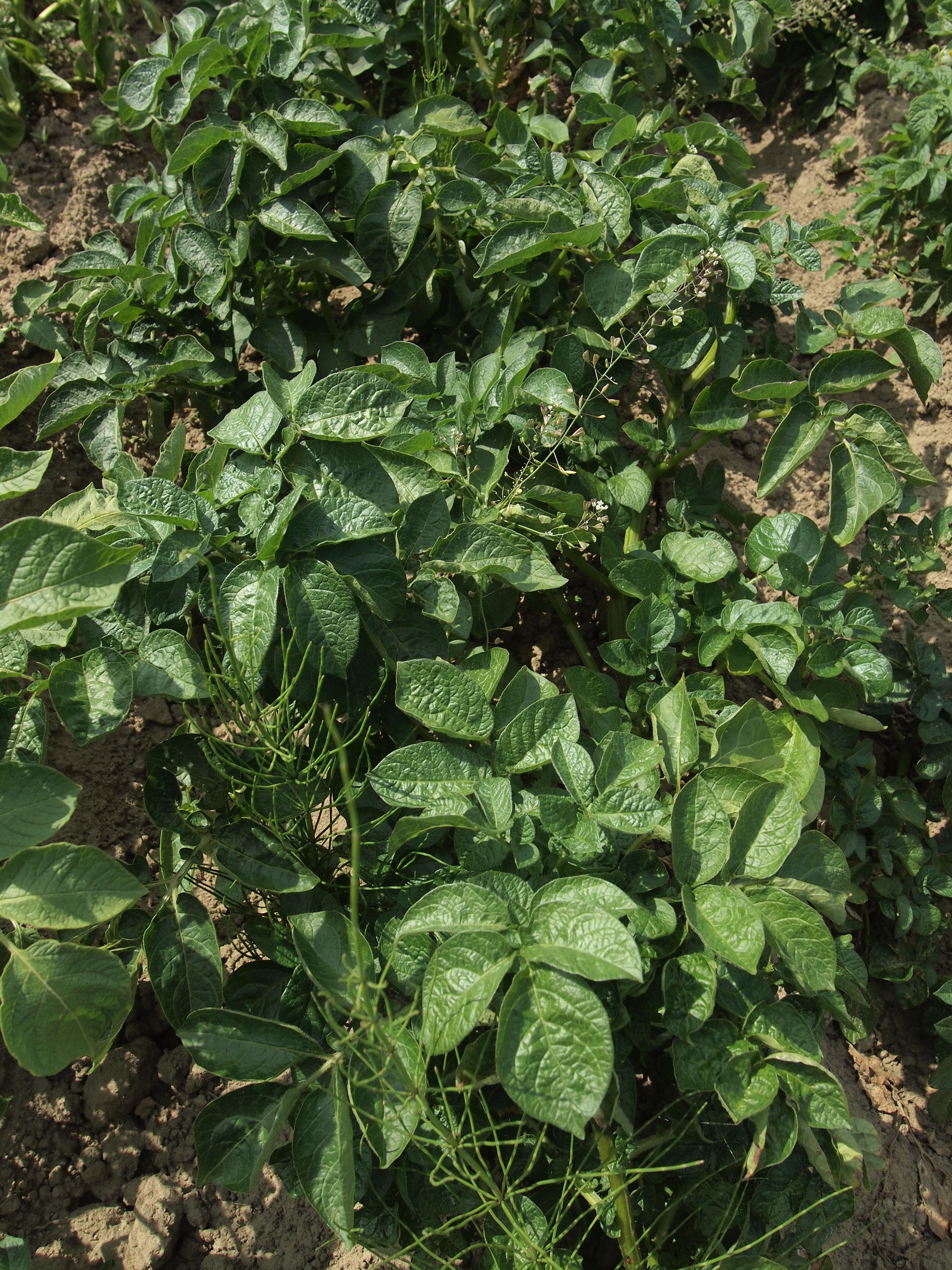 This potato-picture was taken by Ordercrazy with permission of Christian Müller from Aletshofen, municipality of Ettringen, Germany.